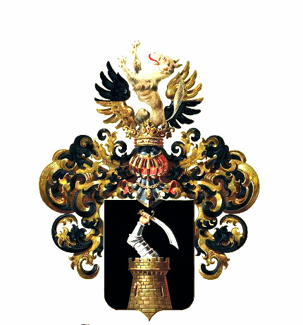 Coat of Arms of Shleifer family